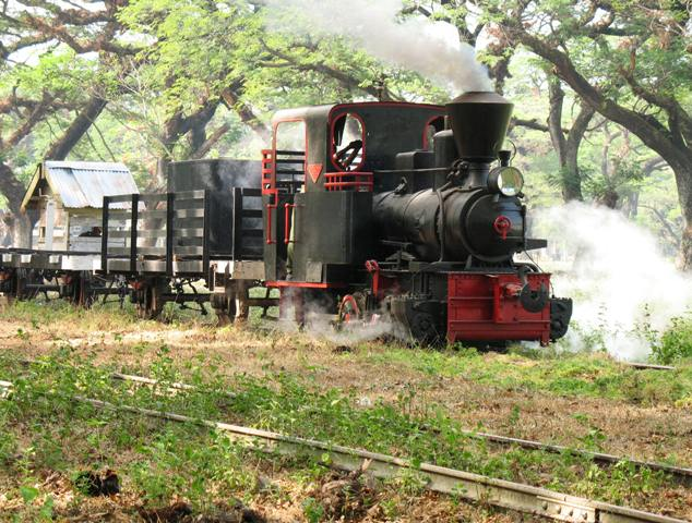 Du Croo and Brauns 0-6-0 locomotive beneath spectacular Rain Trees in the woodyard at Batokan (Cepu) on the Cepu Forest Railway.